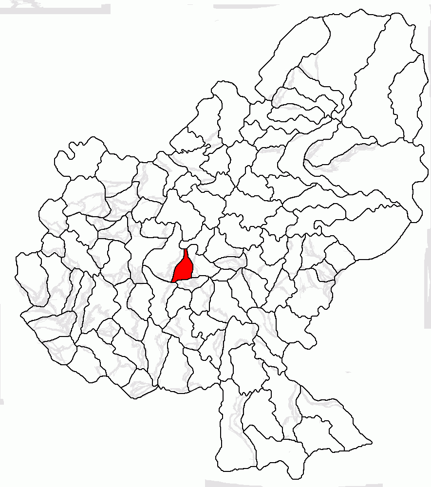 Locator map of the commune of Sâncraiu de Mureș, Mureș County, Romania